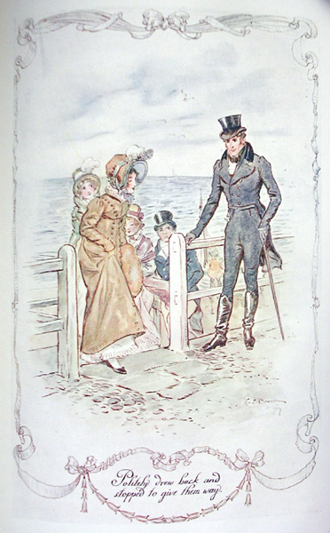 Persuasion, ch 12: Politely drew back and stopped to give them way.